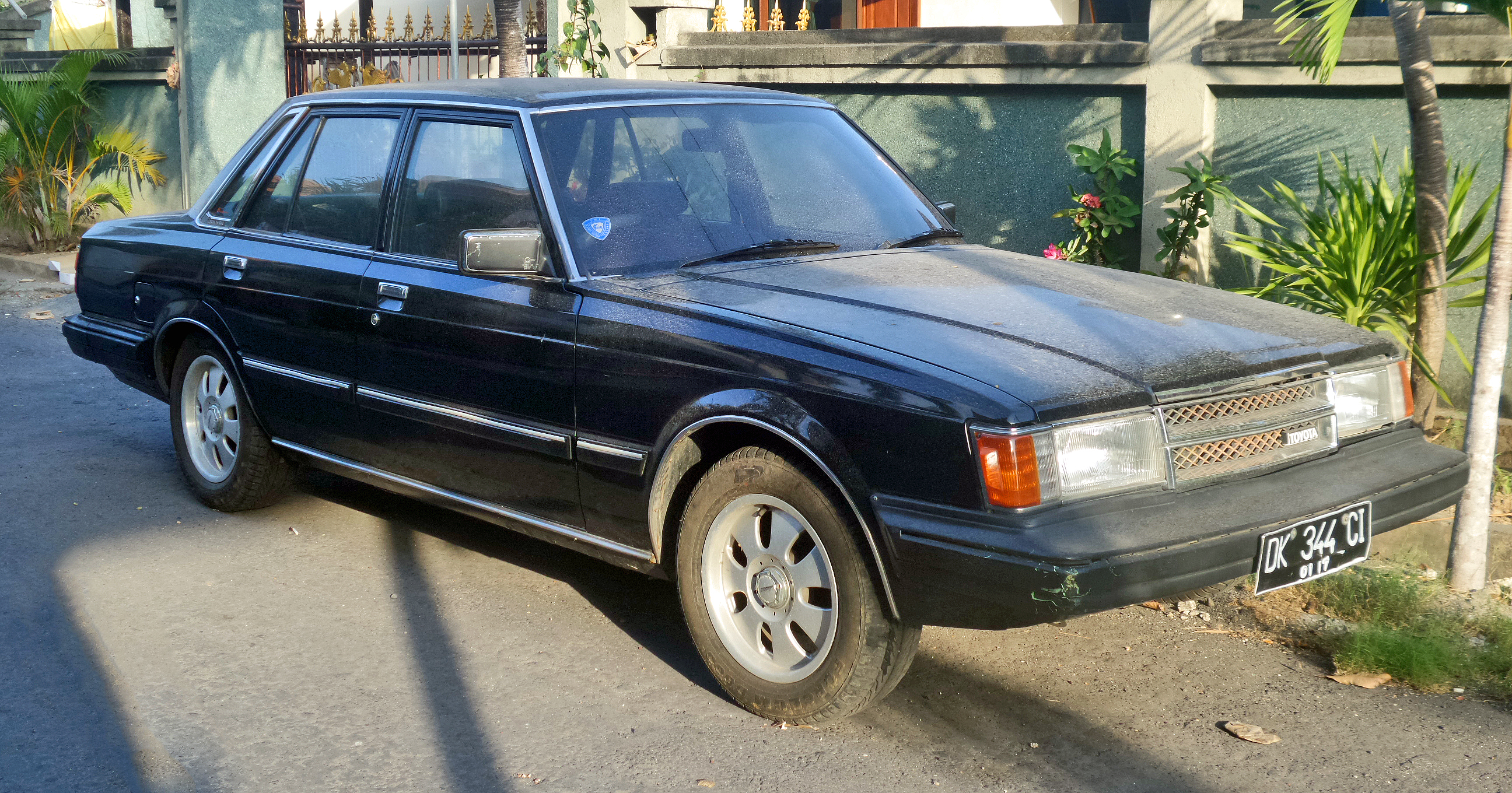 Front view of a Toyota Corona Mark II (X60) in Panjer, Denpasar, Bali, Indonesia. Custom wheels.